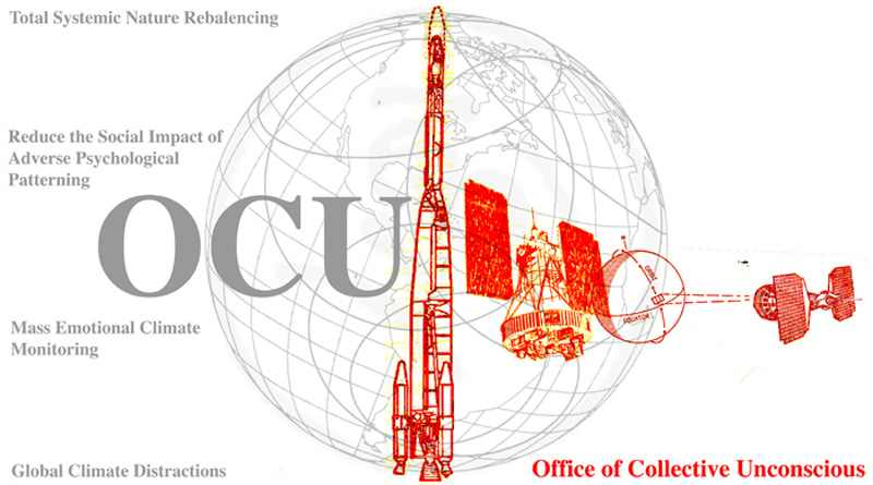 Image used for Nsumi Collective's "Office of Collective Unconscious" proposal for The Institute for Wishful Thinking: Artists in Residence for the US Government (self declared), exhibition at Momenta Gallery, Brooklyn NYC, 2011. This piece received a mention in the New Yorker Magazine.